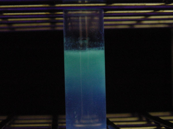 Production of pyoverdin, water-soluble green-yellow fluorescent pigment of Pseudomonas aeruginosa. Ps. aeruginosa cultured on NAC soft agar medium. The aerobic bacteria grow only on the surface of the medium (forming whitish biofilm) , and fluorescent pigment diffuses down (observed under black light).